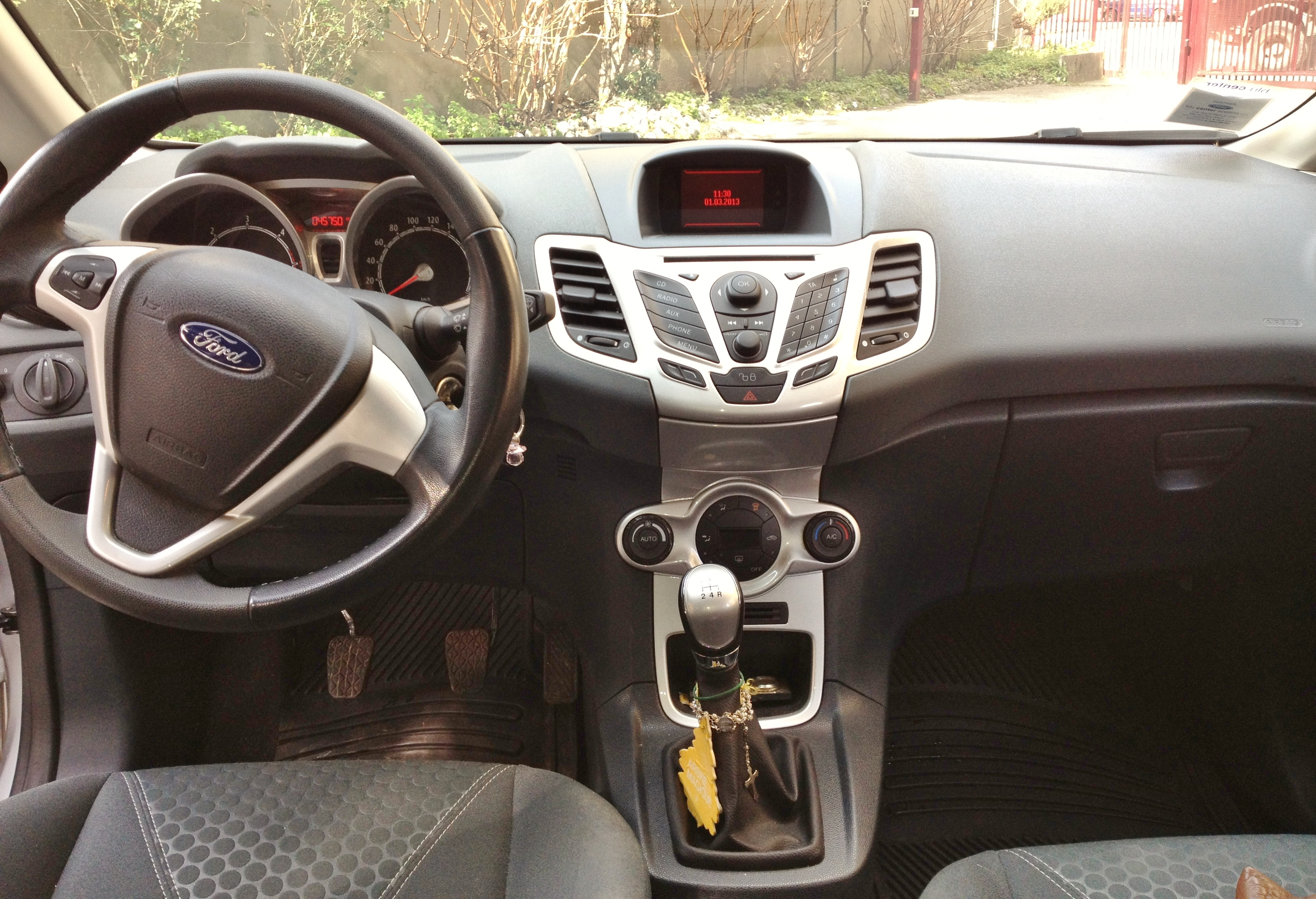 2010 Ford Fiesta interior in Avellino, Italy